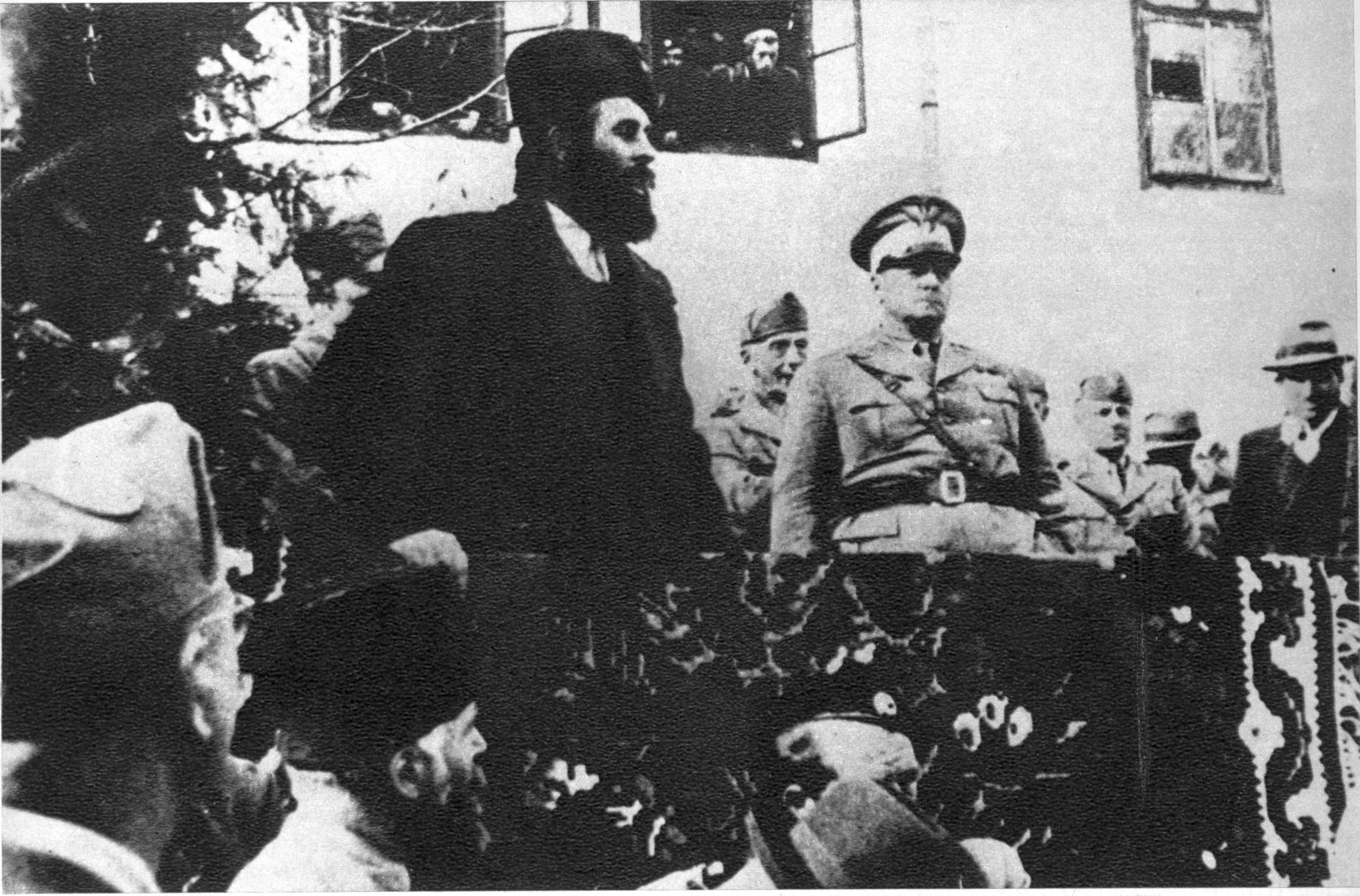 Chetnik commander Pavle Đurišić making a speech to the Chetniks in the presence of General Pirzio Biroli, Italian governor of Montenegro, in November 1942.